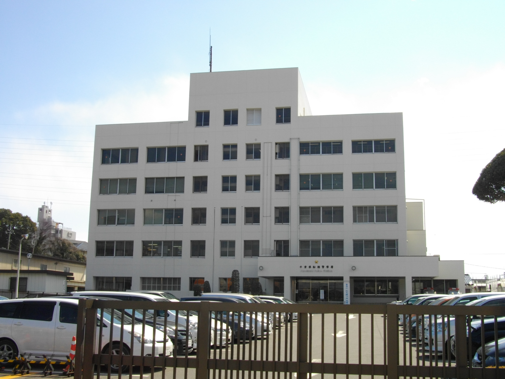 Funabashi Police Station